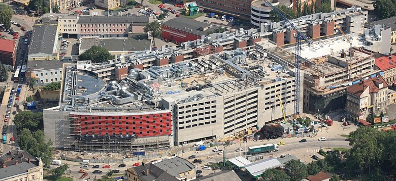 Aerial photography of second building (under construction) of shopping mall Sfera in Bielsko-Biała, Poland.